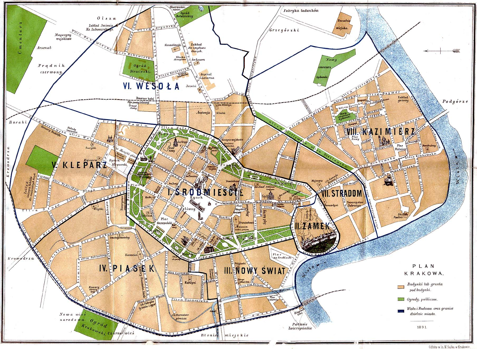 Plan of Cracow from Work of Józef Rostafiński - 1891